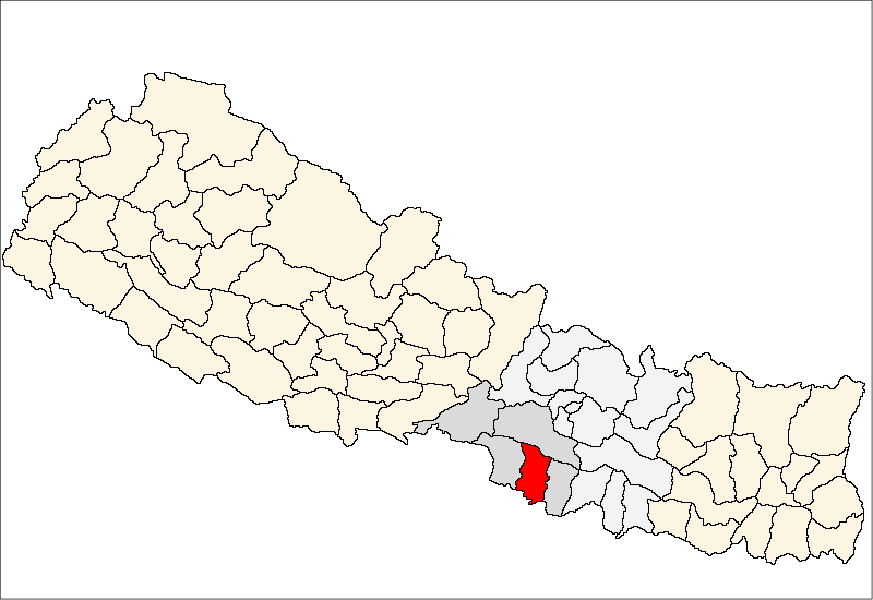 FrenchCarte de localisation dudistrict de Bara(wp-FR),au Népal (wp-FR).EnglishLocation map ofBara District(wp-EN),in Nepal (wp-EN).